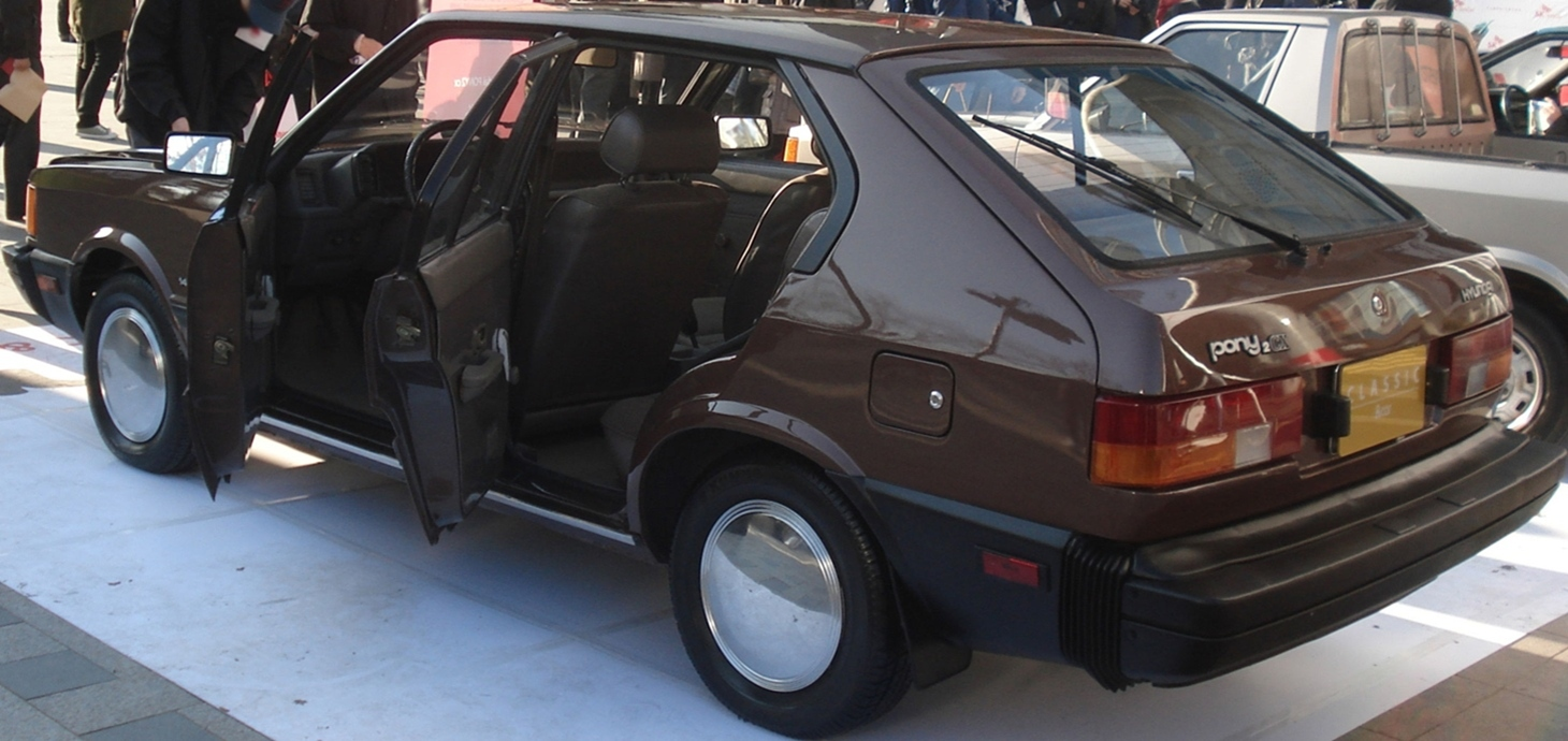 Hyundai Pony Ⅱ